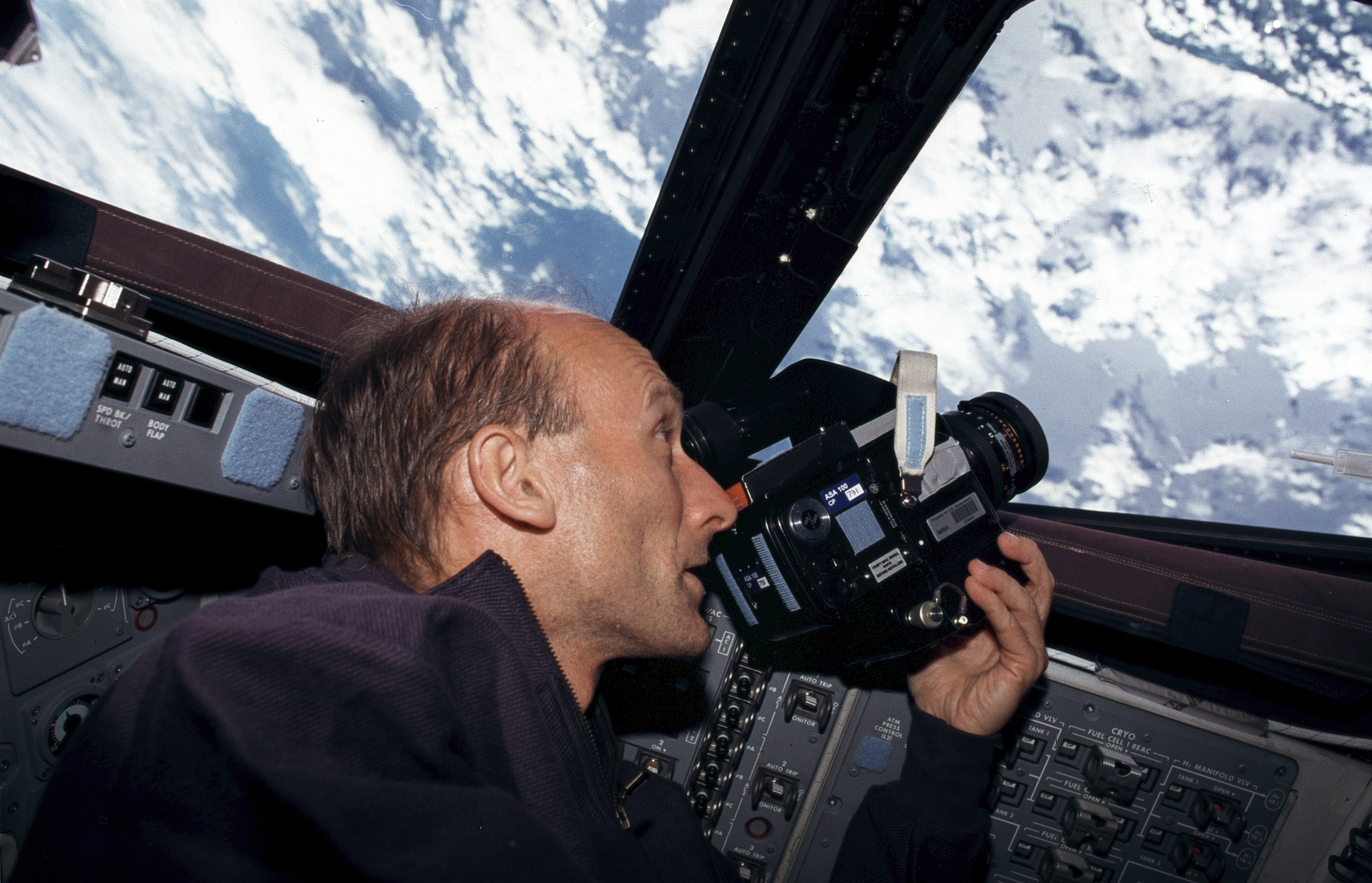 Astronaut Gerhard Thiele records Earth imagery.